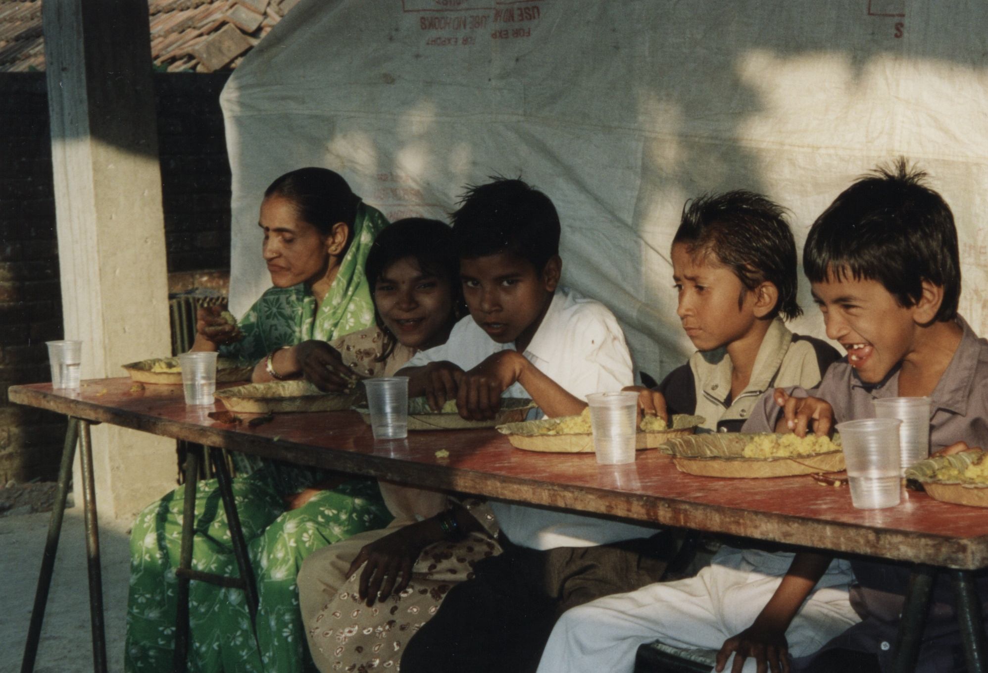 children during a festival - eating from plates made of leaves, in Kolkata